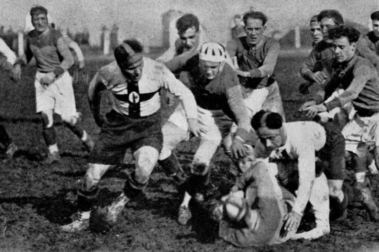 A match between Ambrosiana (Milan) and GS Michelin (Turin) during the 1st ever Italian rugby union championsip